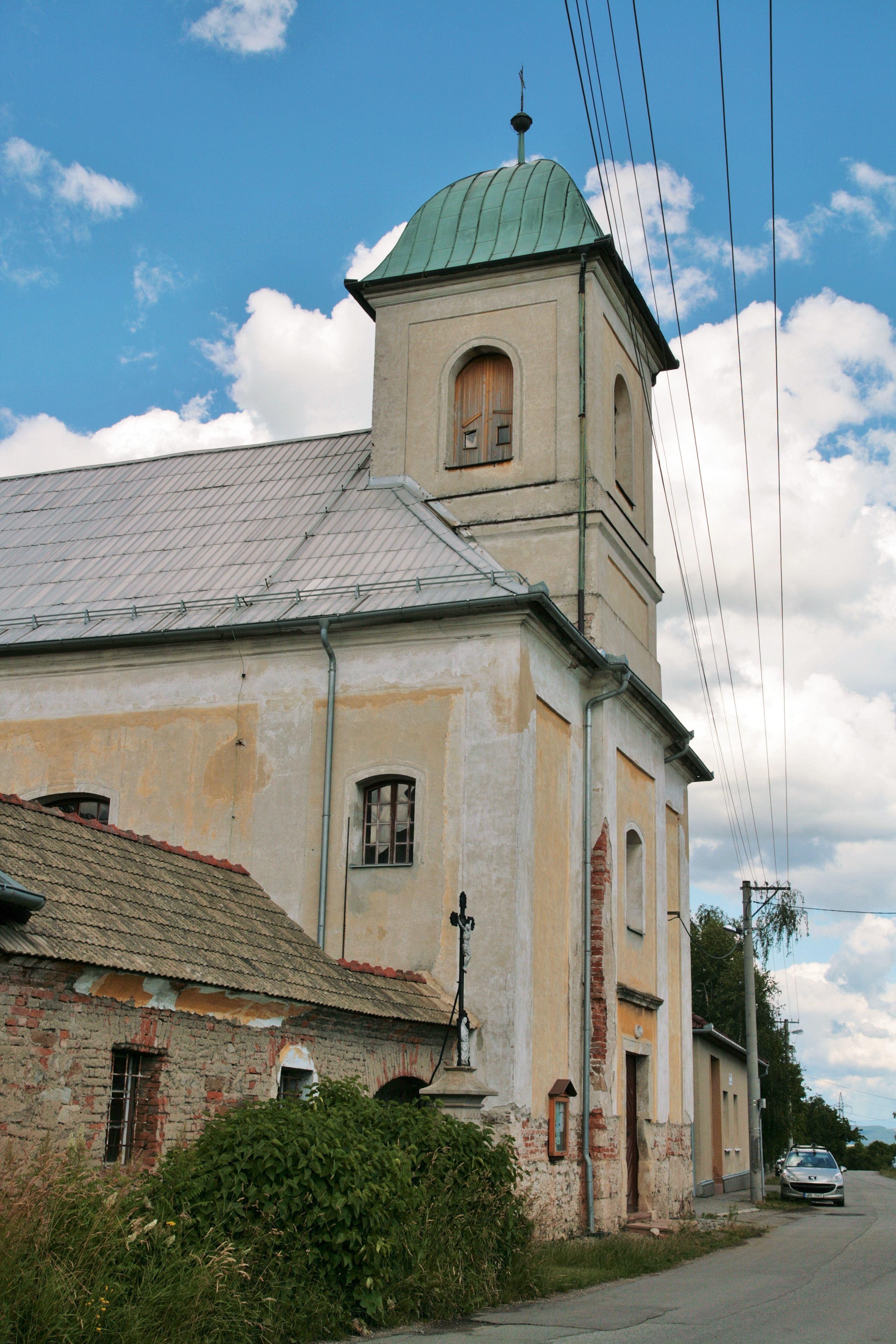 Dlouhá Lhota, Blansko District, Czech Republic. Church of Saint Bartholomew.